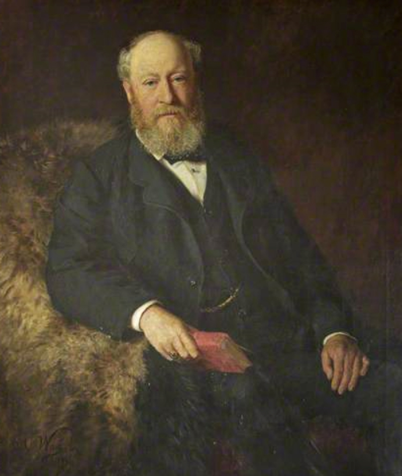 Sir Greville Smyth, owner of Ashton Court, 1890